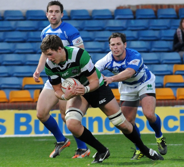 Richard Beck scores a try for Leeds Carnegie in a home game against Nottingham RFC